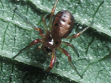 female Hypsosinga pygmaea from Okinawa.